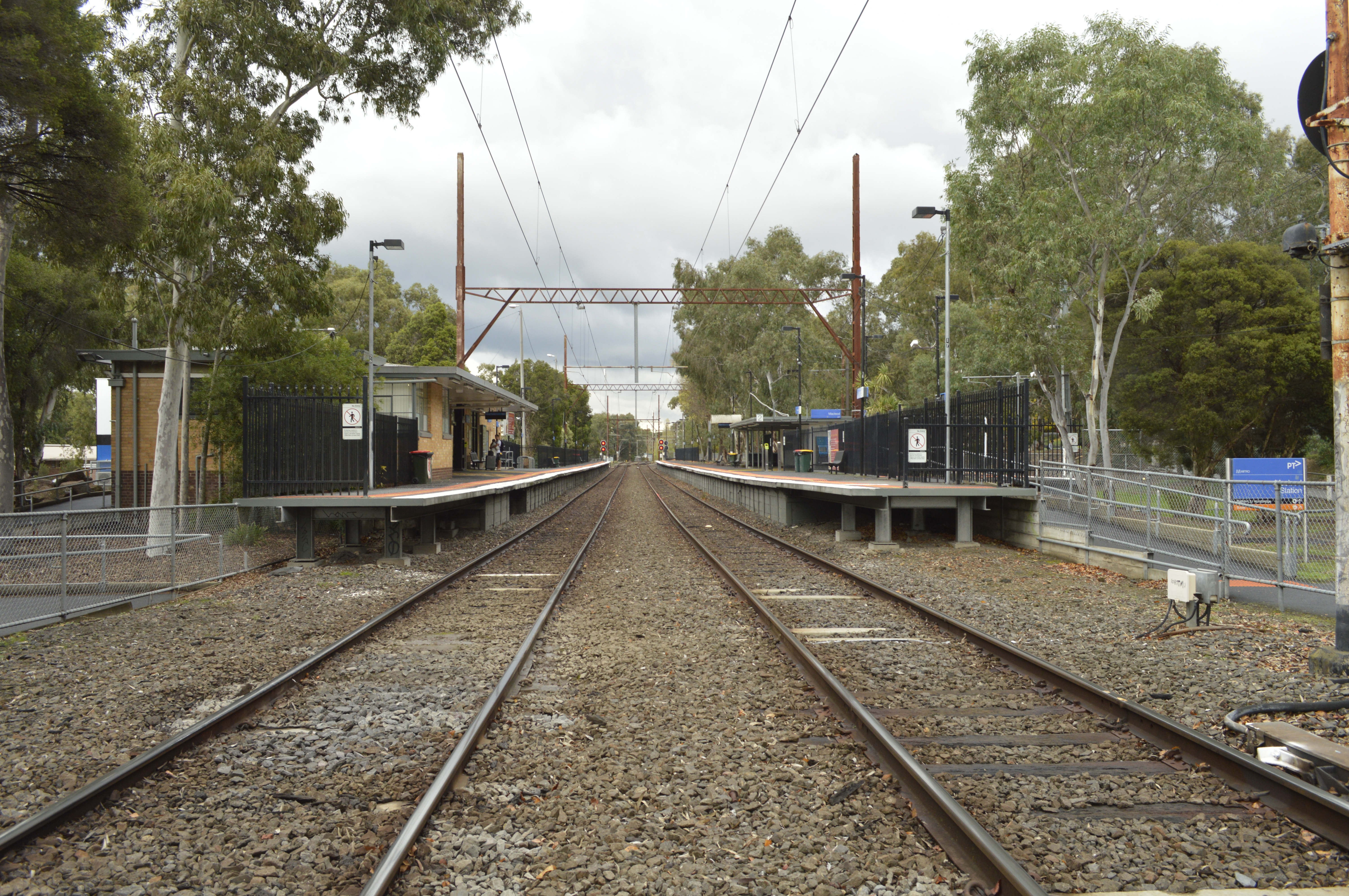 Looking towards Melbourne